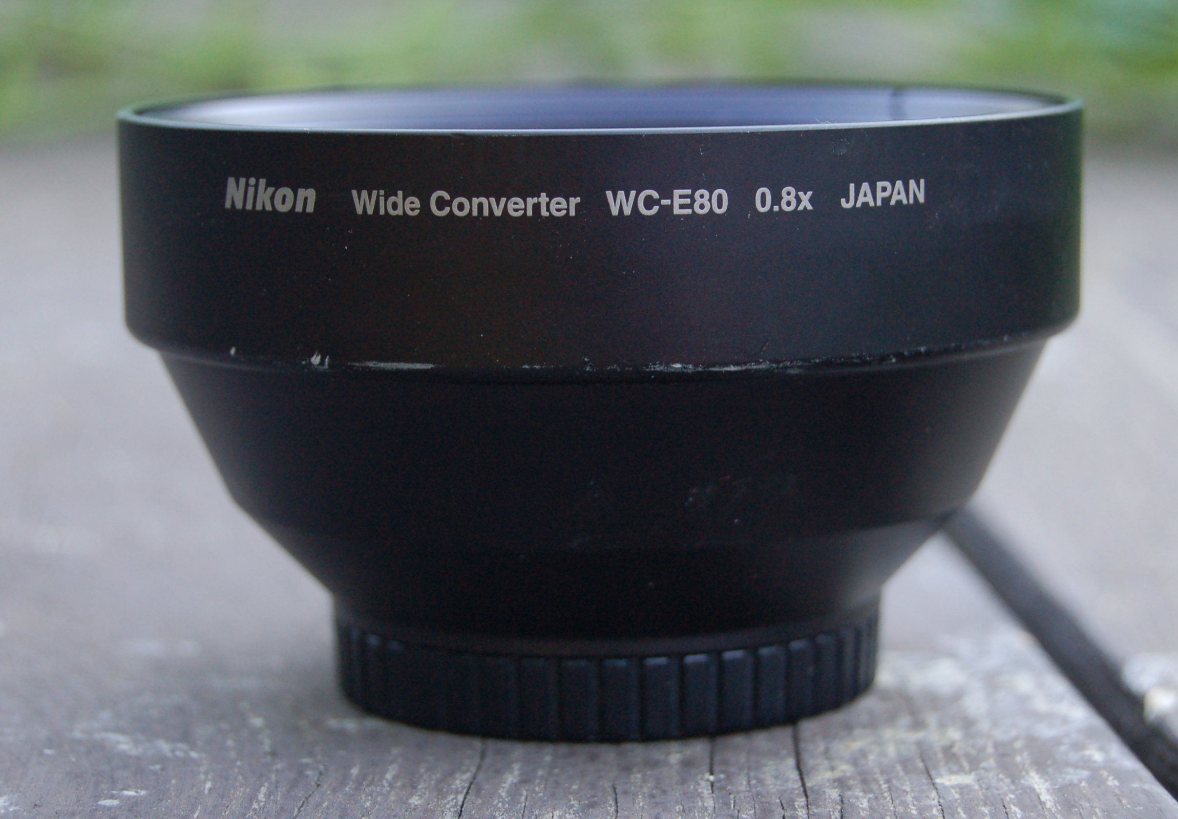 A photograph of the Nikon WC-E80 0.8x Wide Angle Lens Converter for the Nikon Coolpix 5700 and Nikon Coolpix 8700 digital cameras.